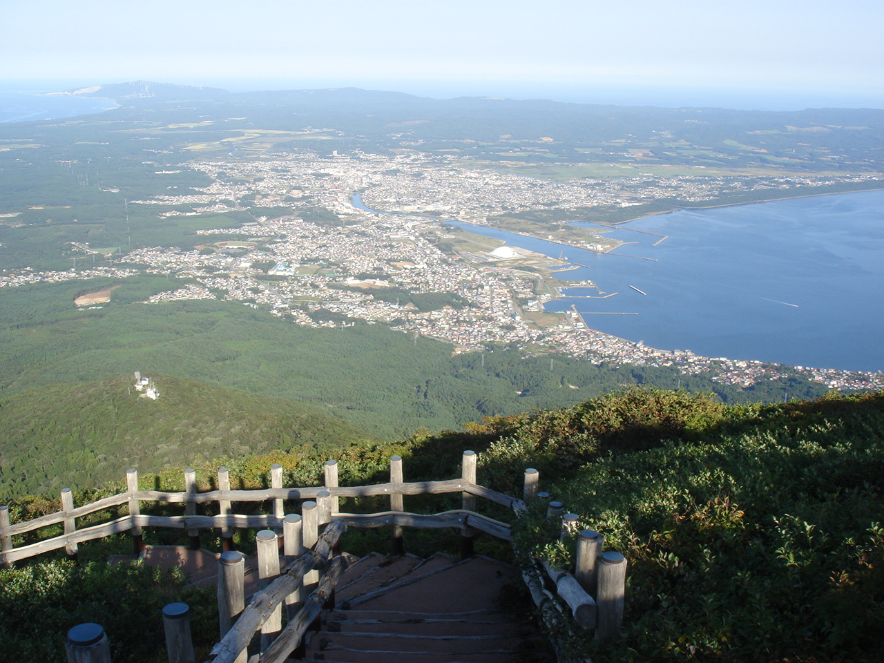 View of Mutsu, Aomori from Mount Kamafuse